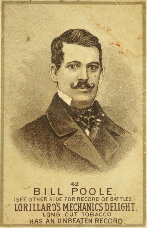 Lorillard's Cigarette Boxer Profile Card, Bill Poole #42 N269 Series, circa late 1880s